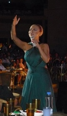 Ebru Gündeş 2011 Side, Antalya konserinden bir görünüm.